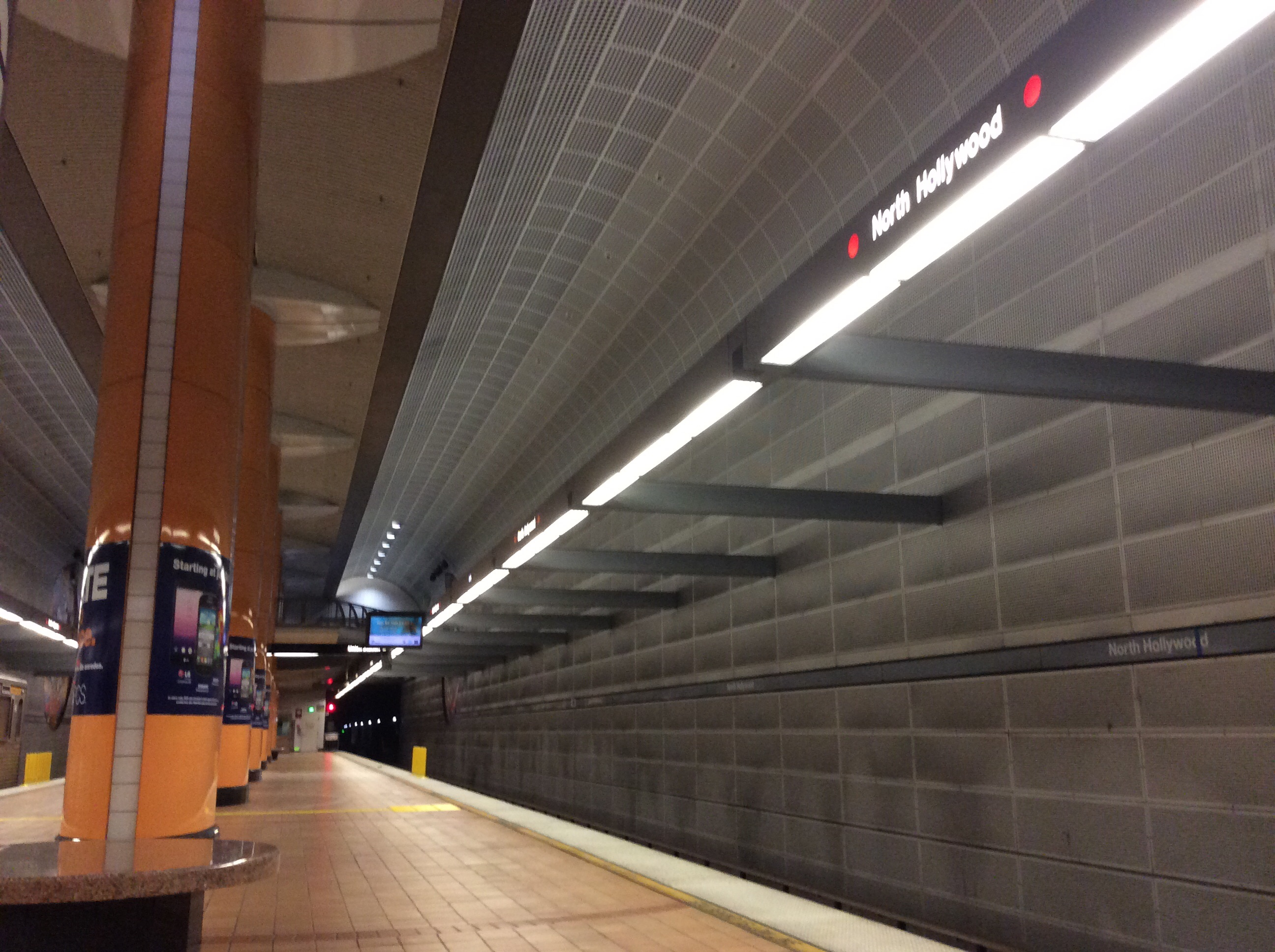 The view of the Red Line platform of the North Hollywood Station.